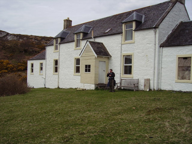 Close up of Barnhill This house is Barnhill, where George Orwell wrote Nineteen Eighty-Four. It is now a holiday cottage for rent... perfect for those who want the quiet life!